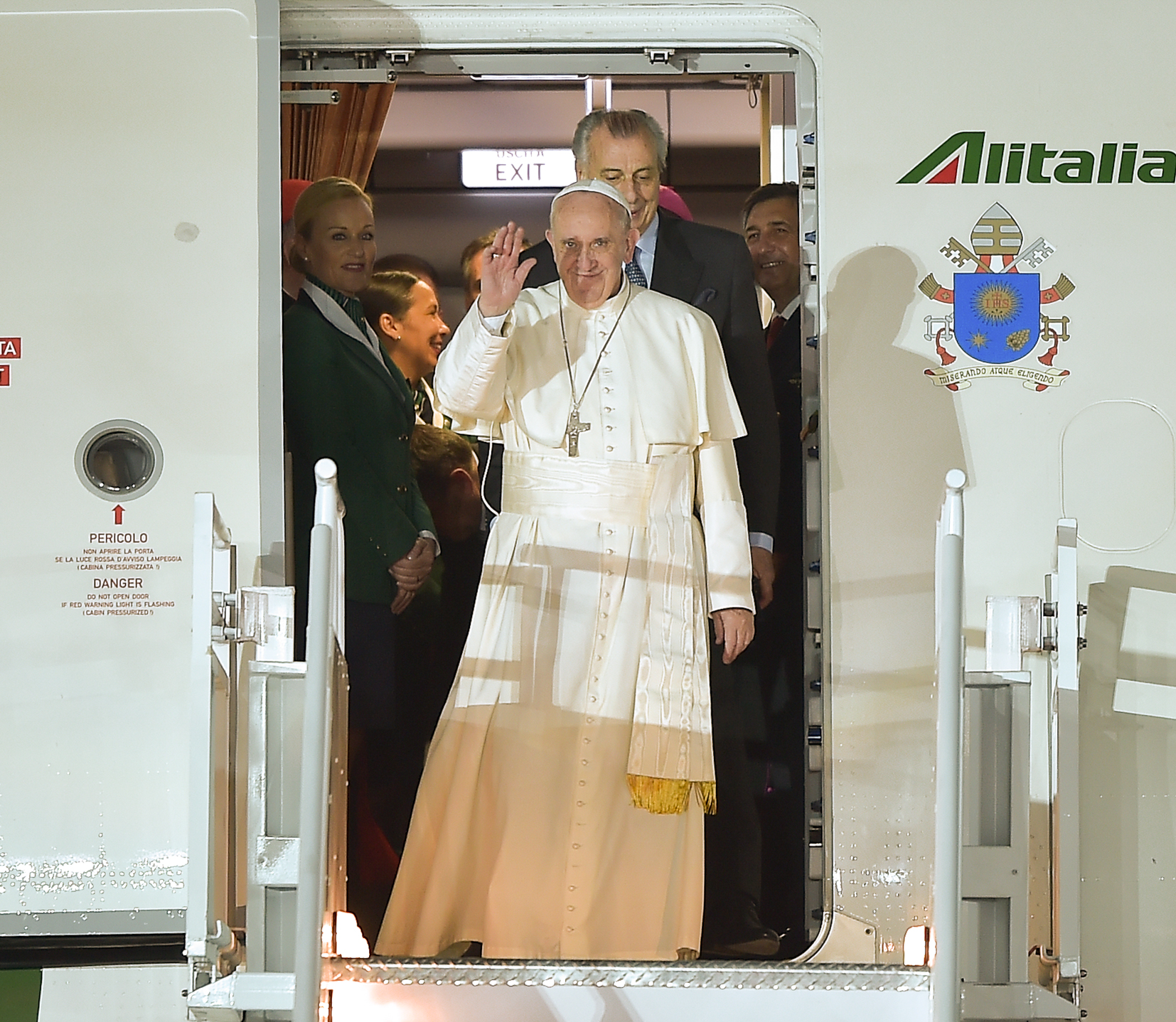 12 de febrero del 2016